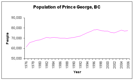 Population graph